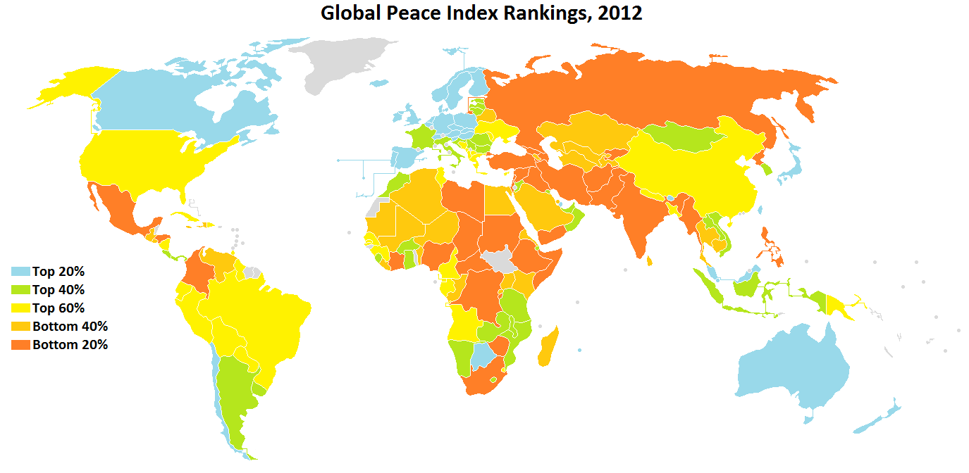 Global Peace Index Map for 2012. Light blue countries are in the top 20%, green are in the top 40%, Yellow in the middle, Light Orange in the bottom 40%, and orange in the bottom 20%.